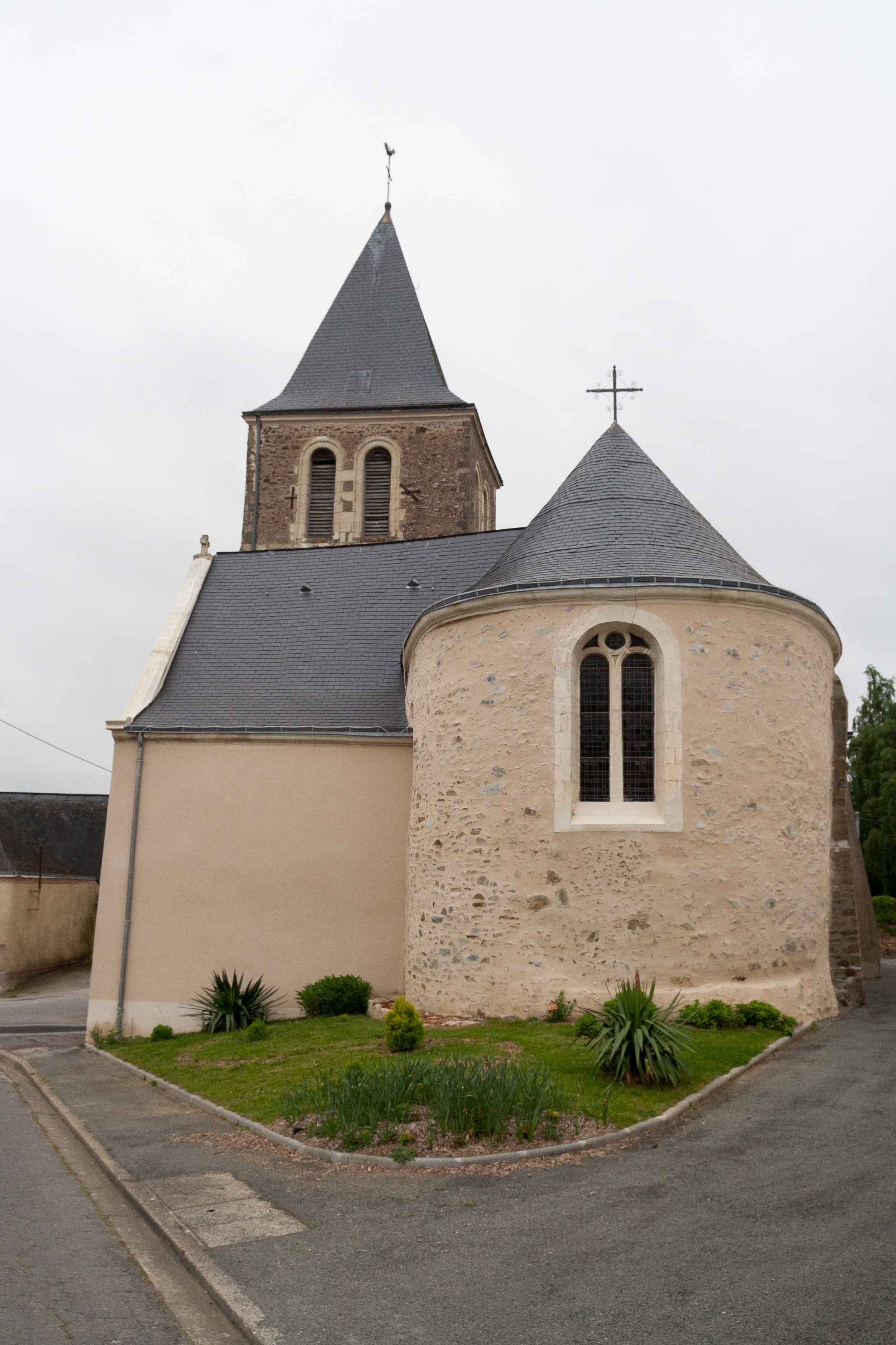 Church of Cosmes.